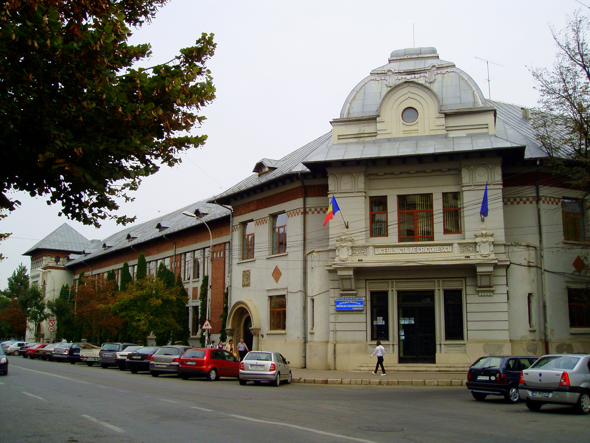 Boys High School, Câmpina, Romania. Architect: Toma T. Socolescu. This building is located at Calea Doftanei, nr 3, in Câmpina, Judeţul Prahova, Romania. It is now called the Nicolae Grigorescu College. We are the only heirs and descendants of Toma T. Socolescu (died in 1960 in Bucharest) and therefore owner of all his intellectual rights.